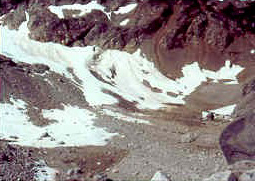 Lewis Glacier, North Cascades, Washington in 1992 after melting away in 1990, there is only scattered snowpatches and no glacier ice left. Author: M.Pelto